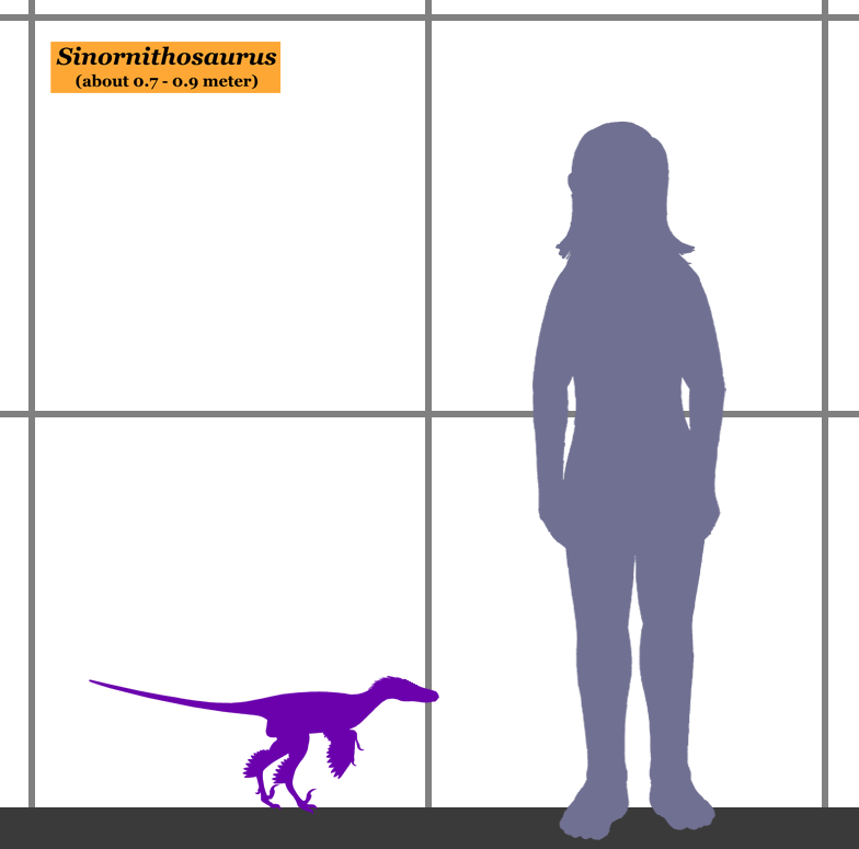 Size comparison between the dromaeosaurid Sinornithosaurus and a human.